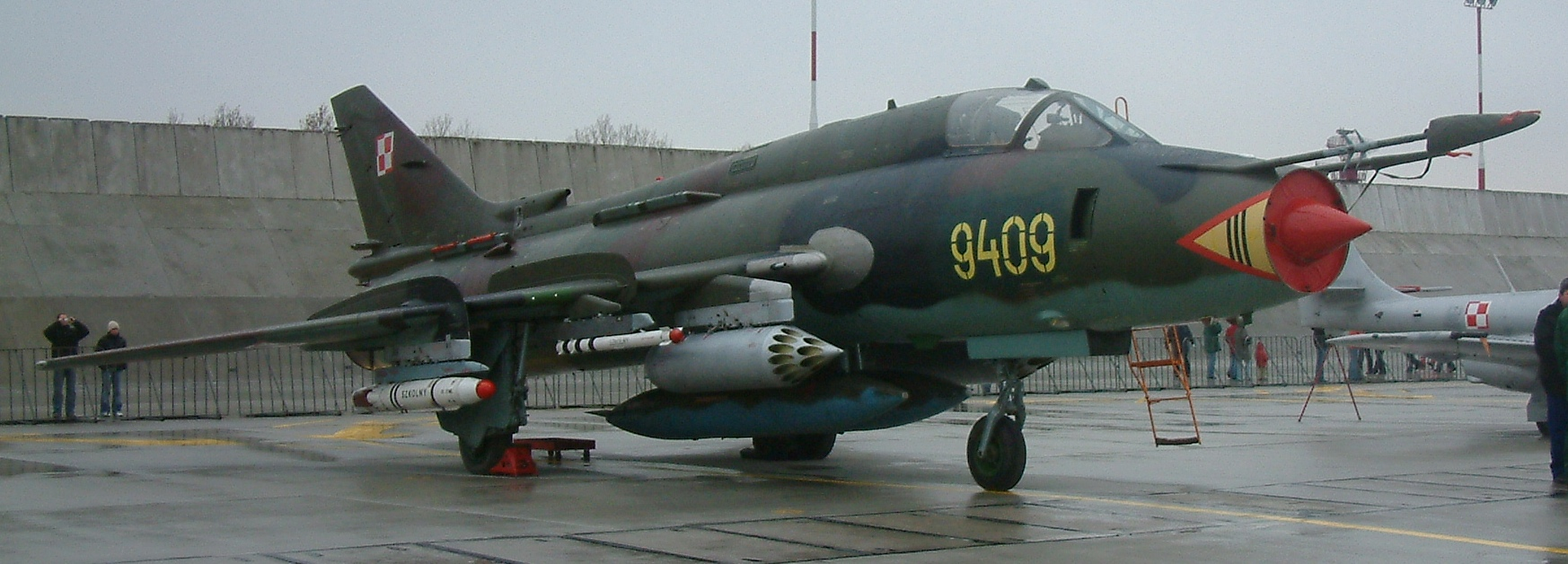 Su-22M4K (Su-17M4K) #9409 of Polish Air Force with markings of 7th Tactical Sqd., 31st. Air Base Poznań-Krzesiny